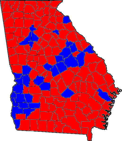 2006 Georgia Lieutenant Governor results by county.